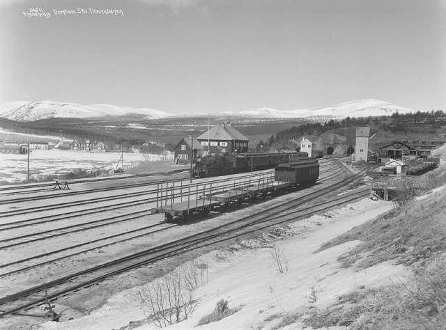 Dombås railway station, the intersection between Dovrebanen and Raumabanen; Dovre, Norway.